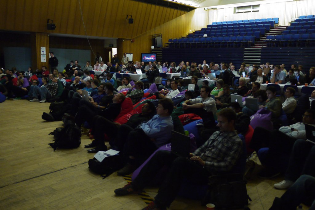 People sitting listening to the keynote at an over the air conference